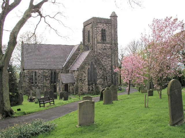 Parish church of St John the Evangelist, Charlesworth, Derbyshire